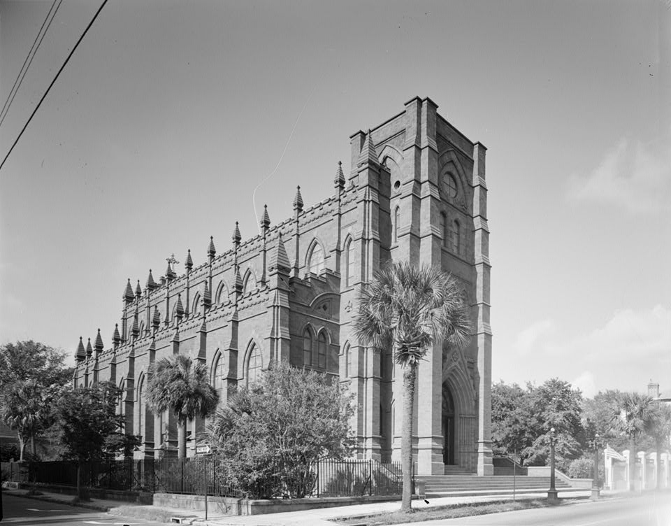 Roman Catholic Cathedral of St. John the Baptist, 122 Broad Street, Charleston, Charleston County, SC